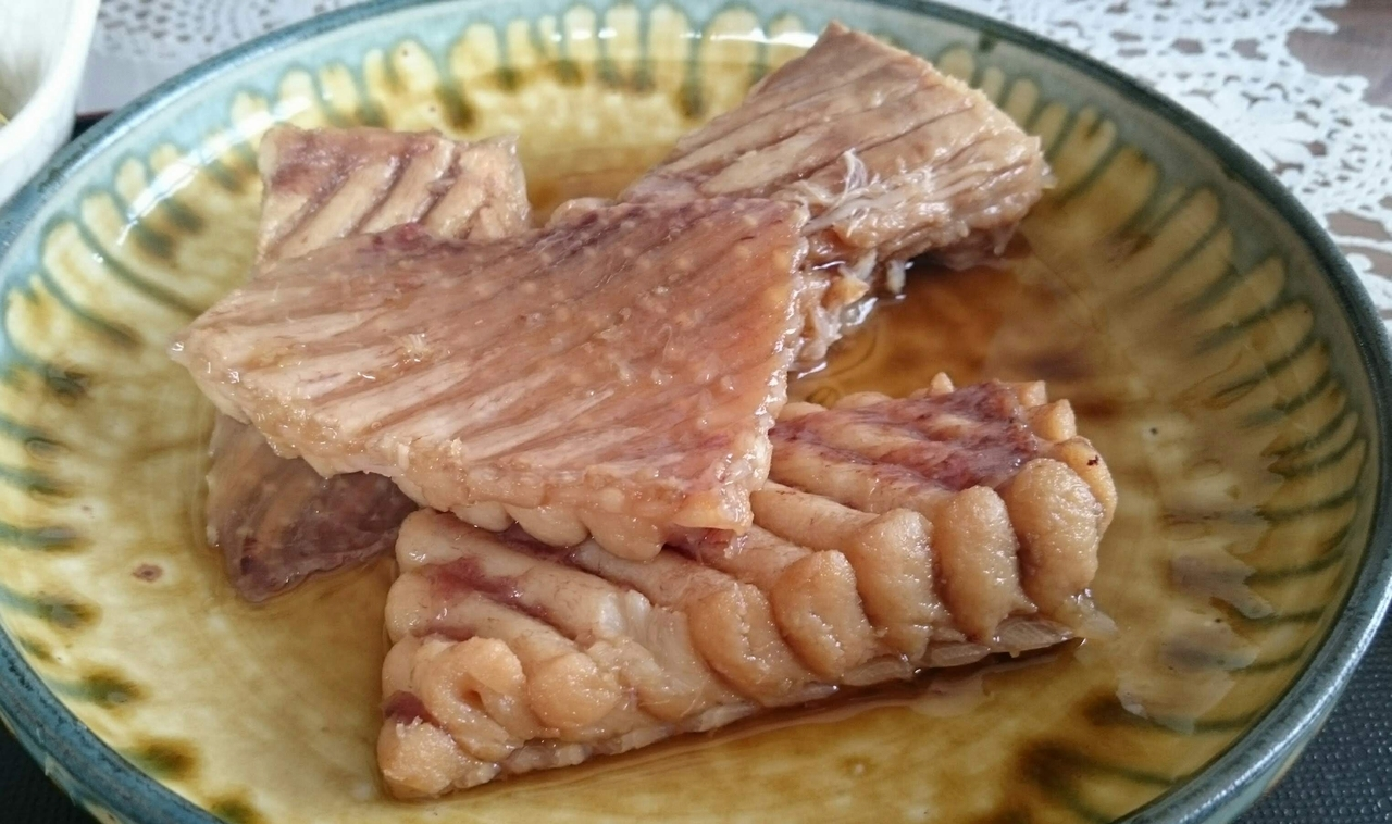 Boiled Batoidea (Hokkaidō, Japan)